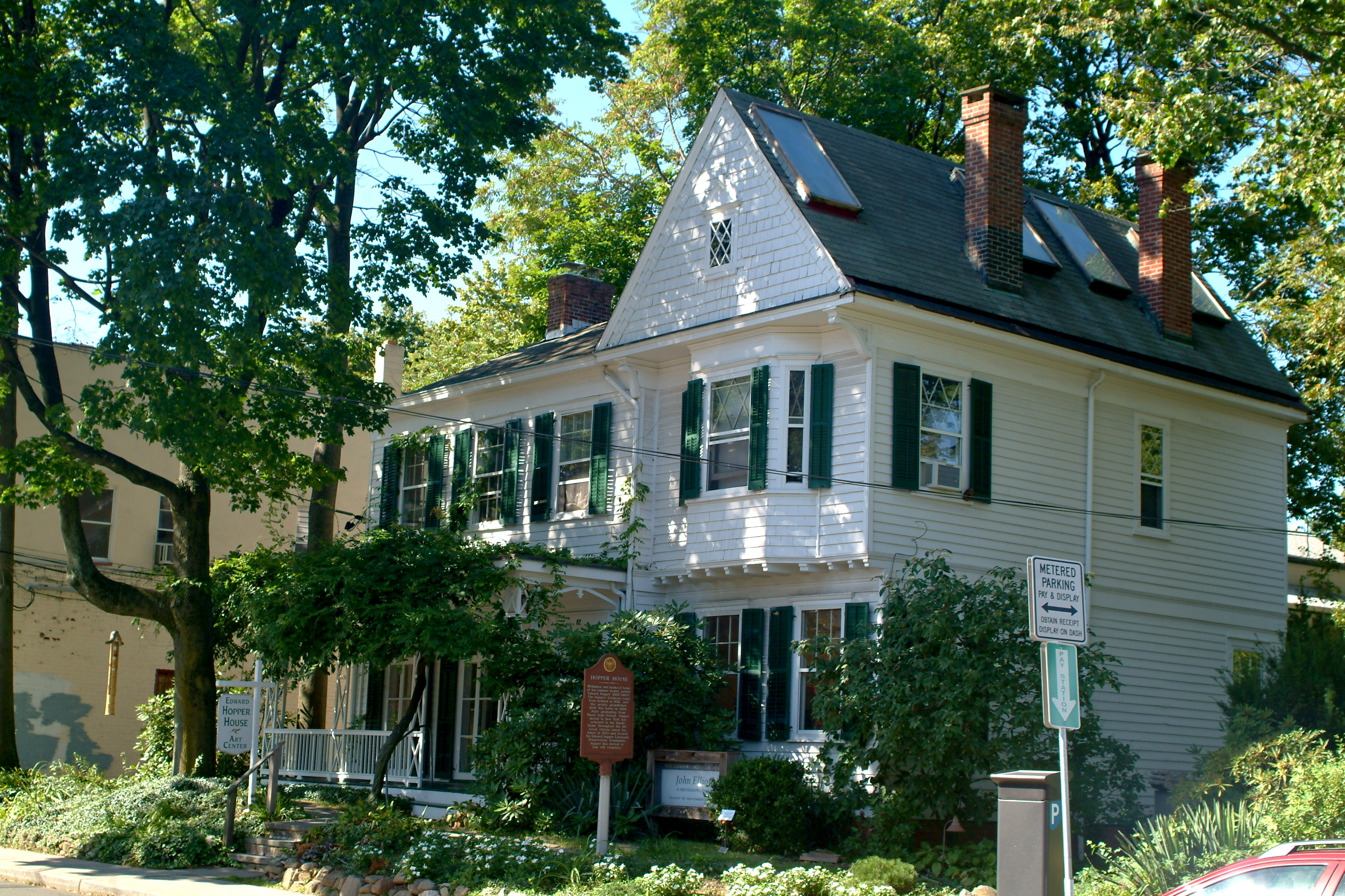 Birthplace of the american realist painter Edward Hopper, Nyack, New York